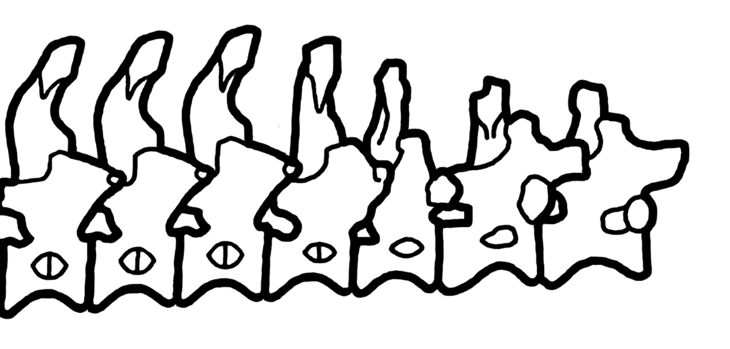 Illustration of dorsal vertebrae 3 to 9, freehanded and simplified from original description by Oliver Mateus and José Bonaparte. The 8th and 9th vertebrae are not based off of figures but instead off of the figure of the 7th with modifications when stated in text. References: Bonaparte, J. (1999). "A New Diplodocid, Dinheirosaurus lourinhanensis gen. et sp. nov., from the Late Jurassic Beds of Portugal". Revista del Museo Argentino de Ciencias Naturales 5 (2): 13–29. ISSN 0524-9511.